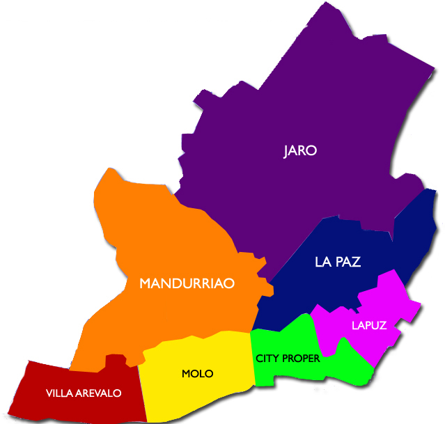 A graphic (map) representation of the seven geographic districts that composes the City of Iloilo, Philippines.